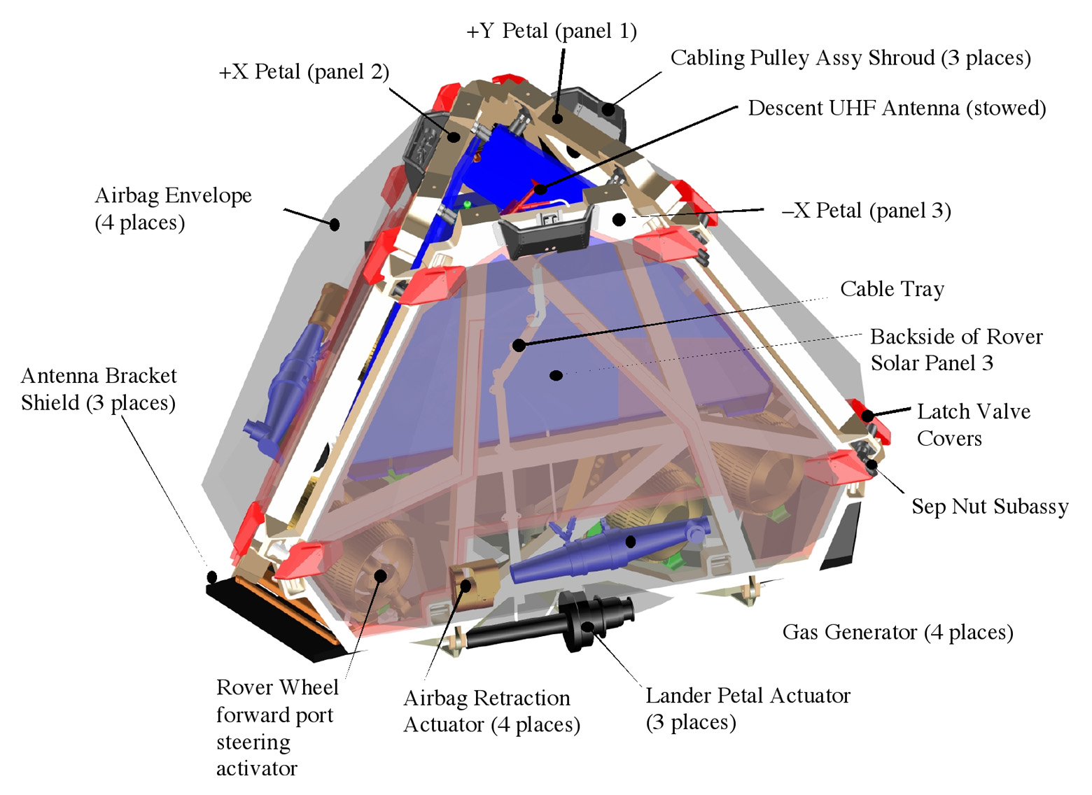 Transparent rendering of the Mars Exploration Rover landing system.